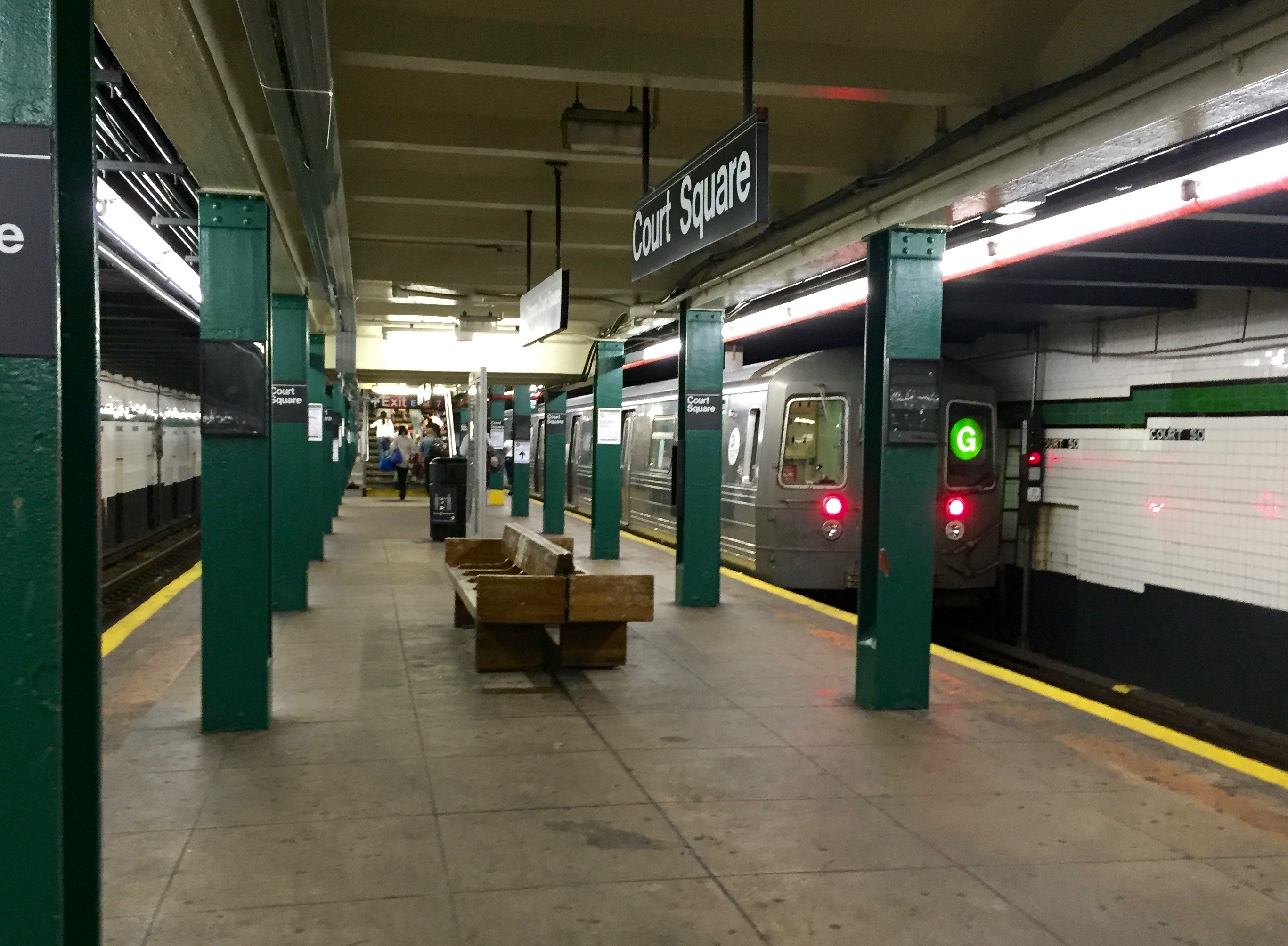 Crosstown G platform at Court Square on the G.